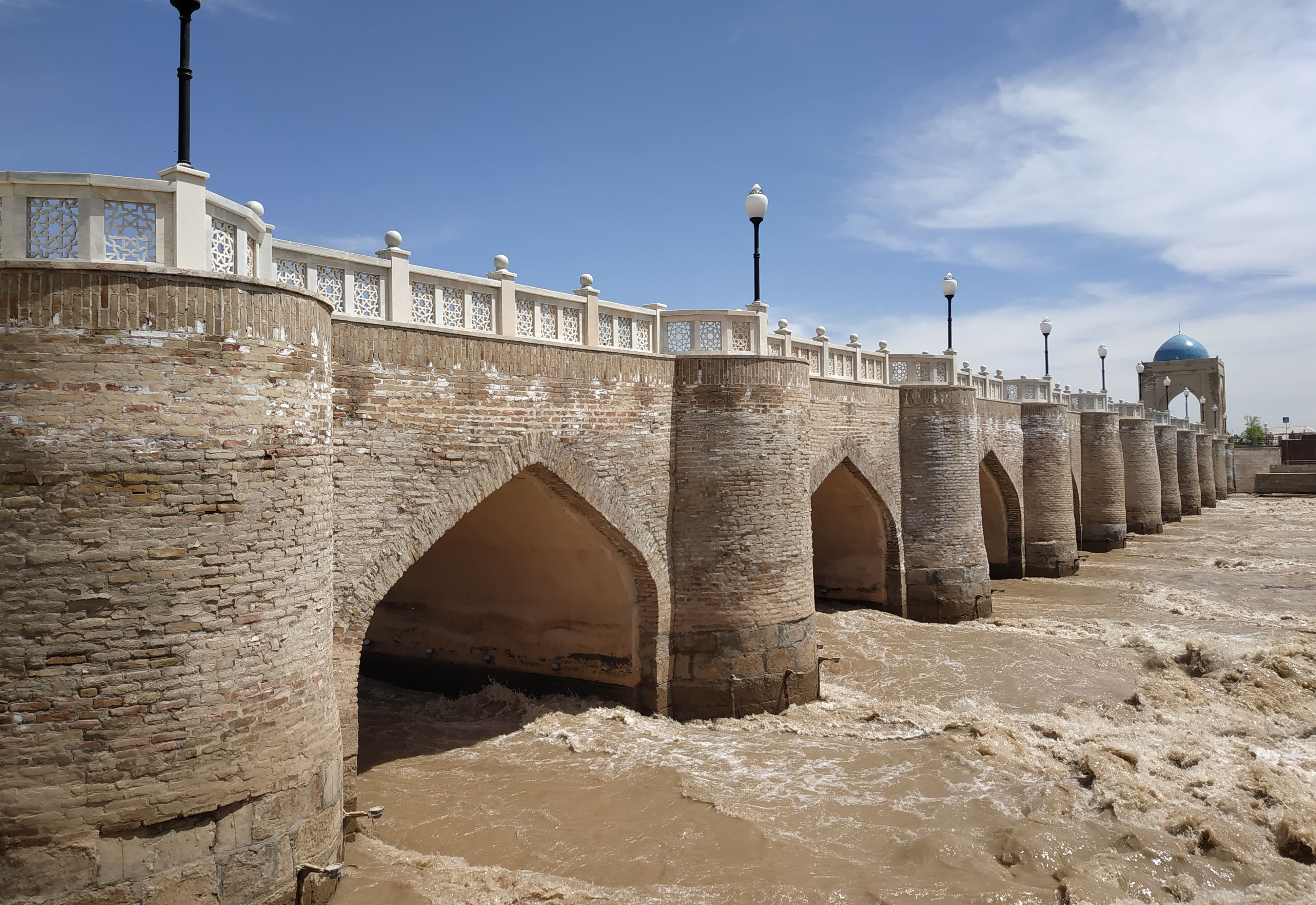 Ancient bridge (1583) in Qarshi (Uzbekistan).